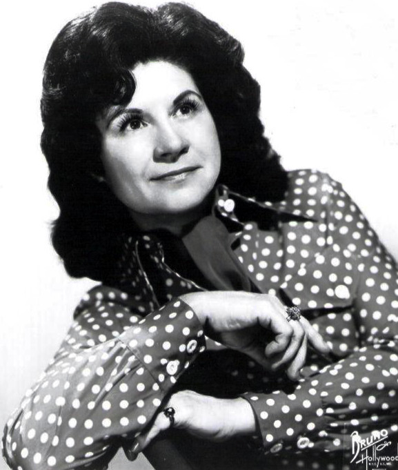 Photo of singer Kitty Wells from a 1974 Capricorn Records ad in Billboard magazine. A larger copy of the same photo was located and cropped for use.